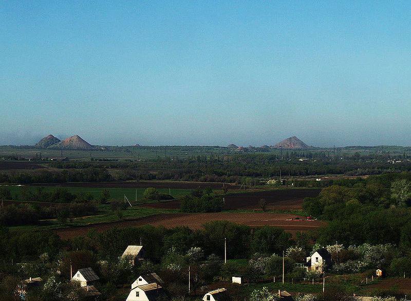 Zimogorye landsape picture